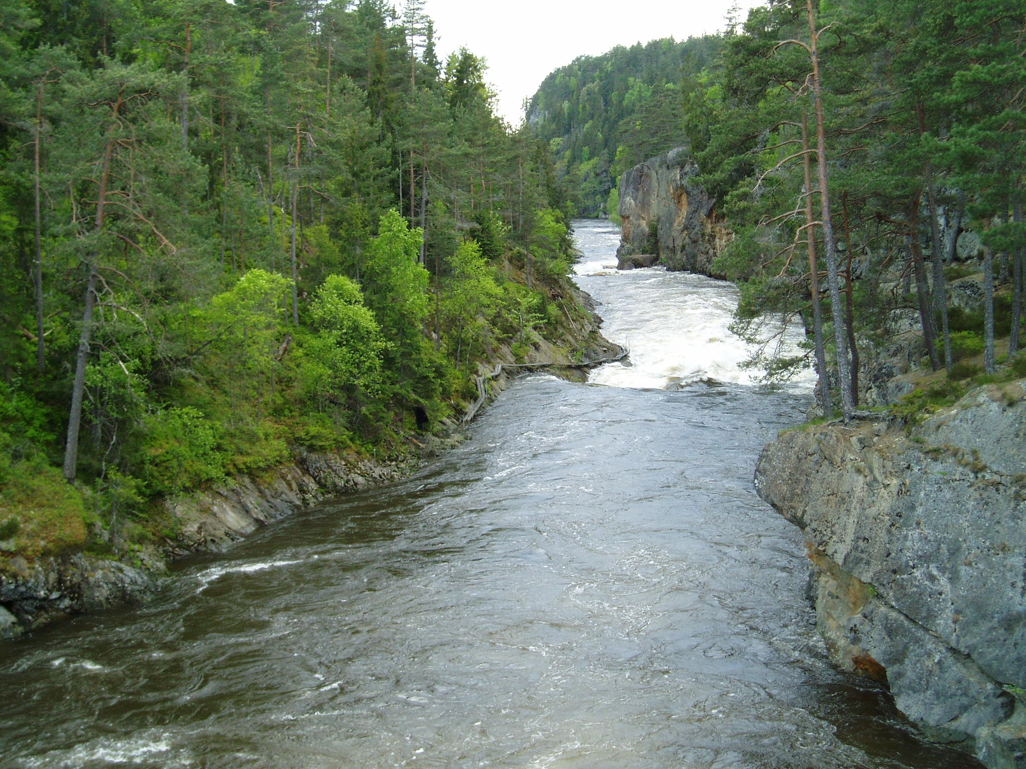 The river Ågårdselva in Norway.